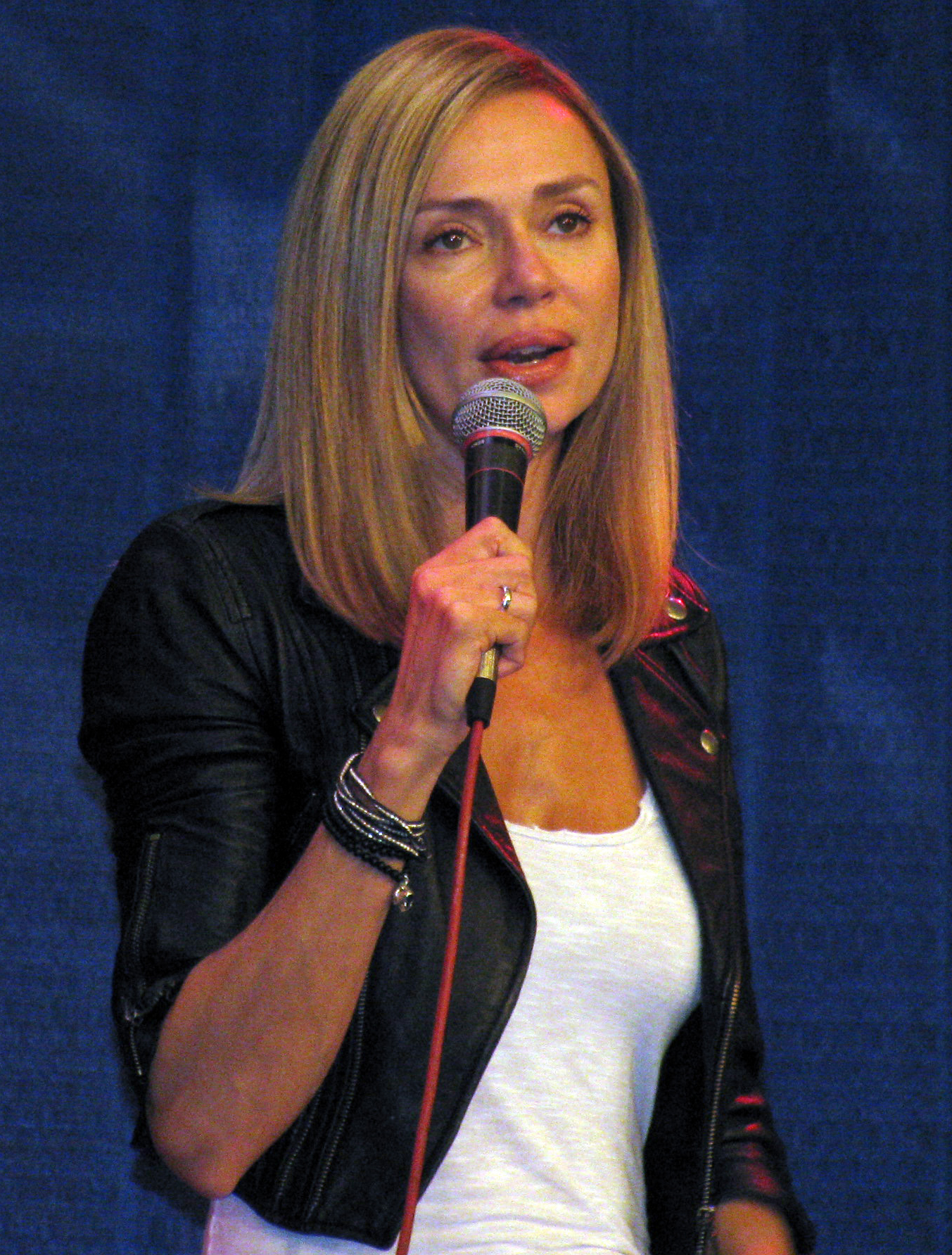 Vanessa Angel at the 2009 Shore Leave convention at Hunt Valley, MD.